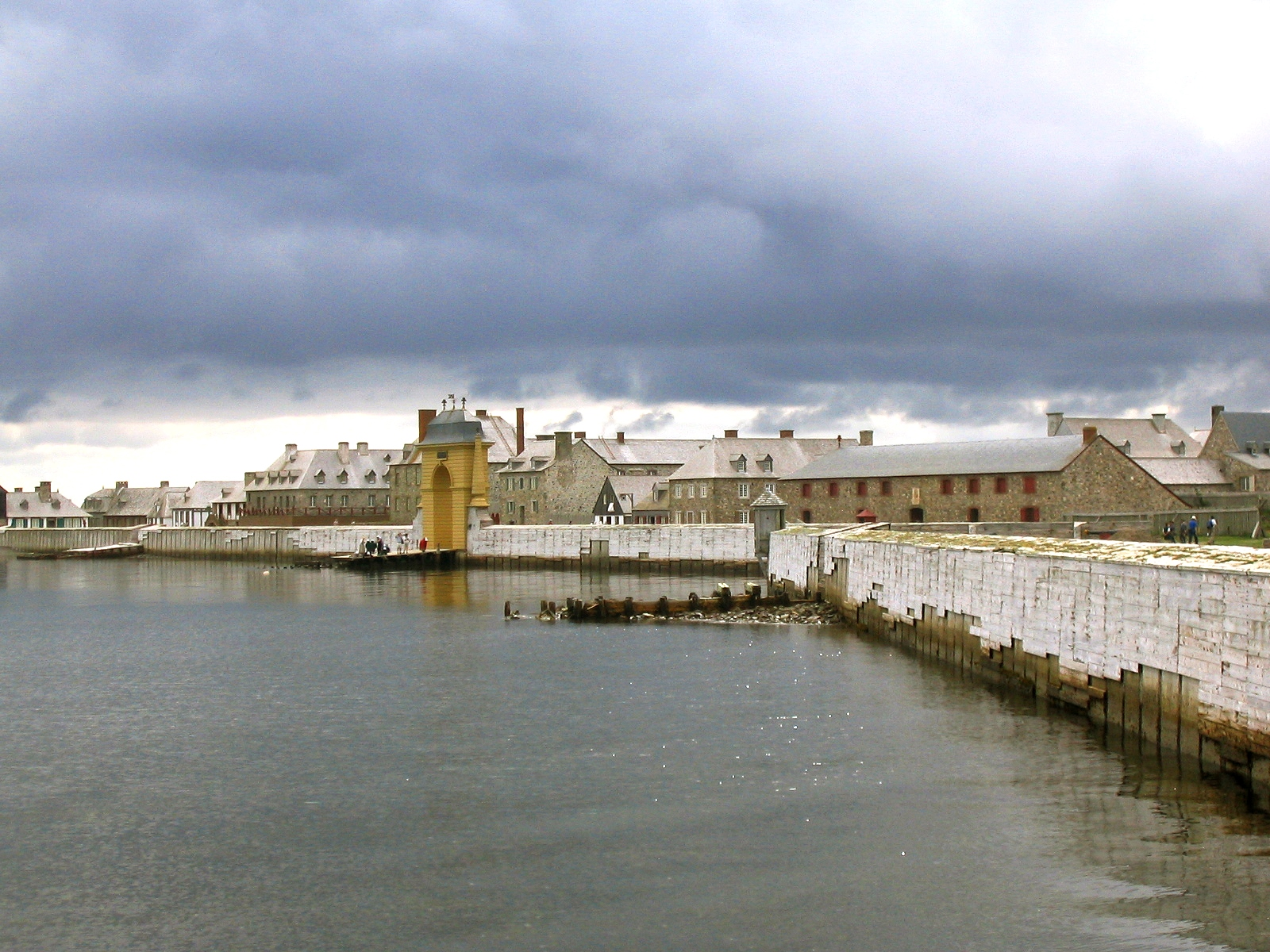 Fortress of Louisbourg, Cape Breton Island, Nova Scotia